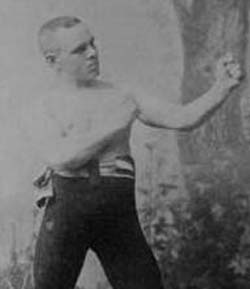 boxer Andy Bowen (1864-1894)